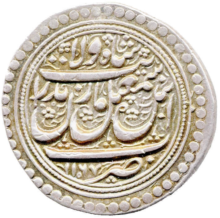 Silver coin of Ismail III minted in Mazandaran. Dated 1753/4.